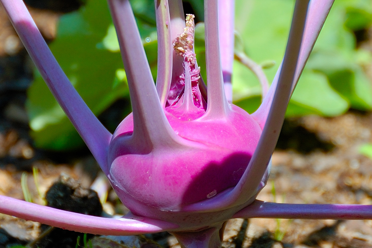 Pink Kohlrabi (Brassica oleracea var. gongylodes) Thanks Macgidtosh! :)